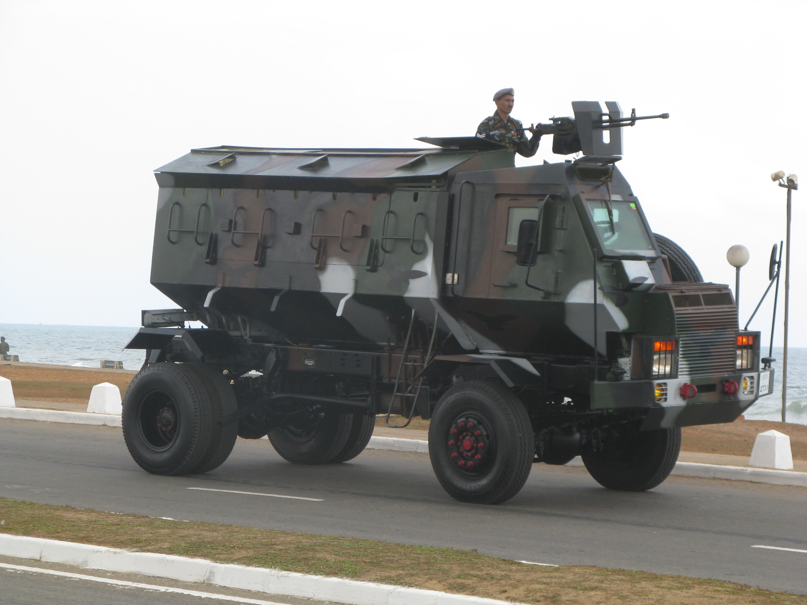 Unibuffel Armored Personnel Carrier - Sri Lanka Army